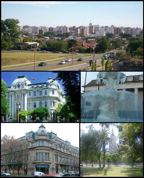 Bahía Blanca